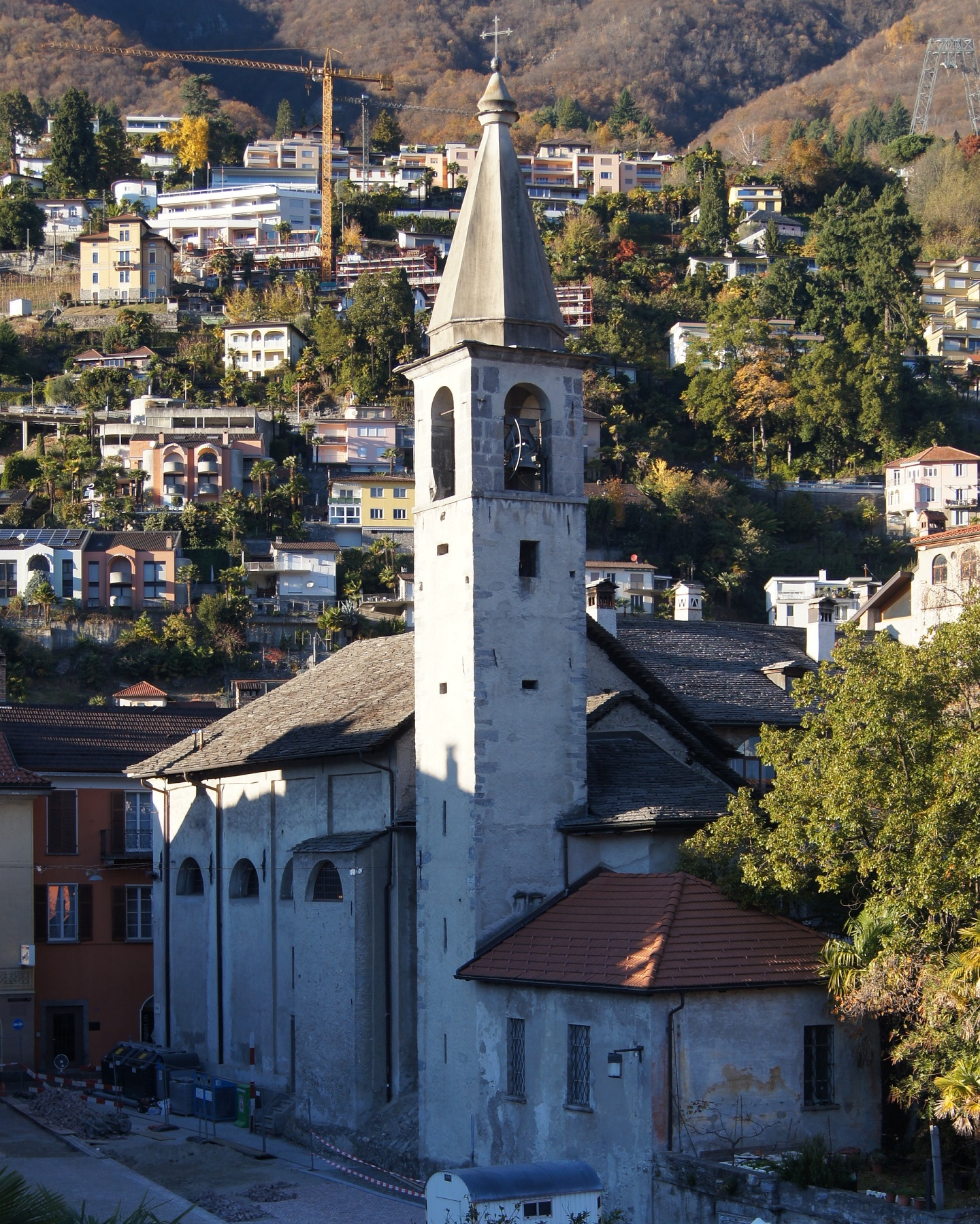 Church Santa Maria Assunta (Chiesa nuova) in Locarno